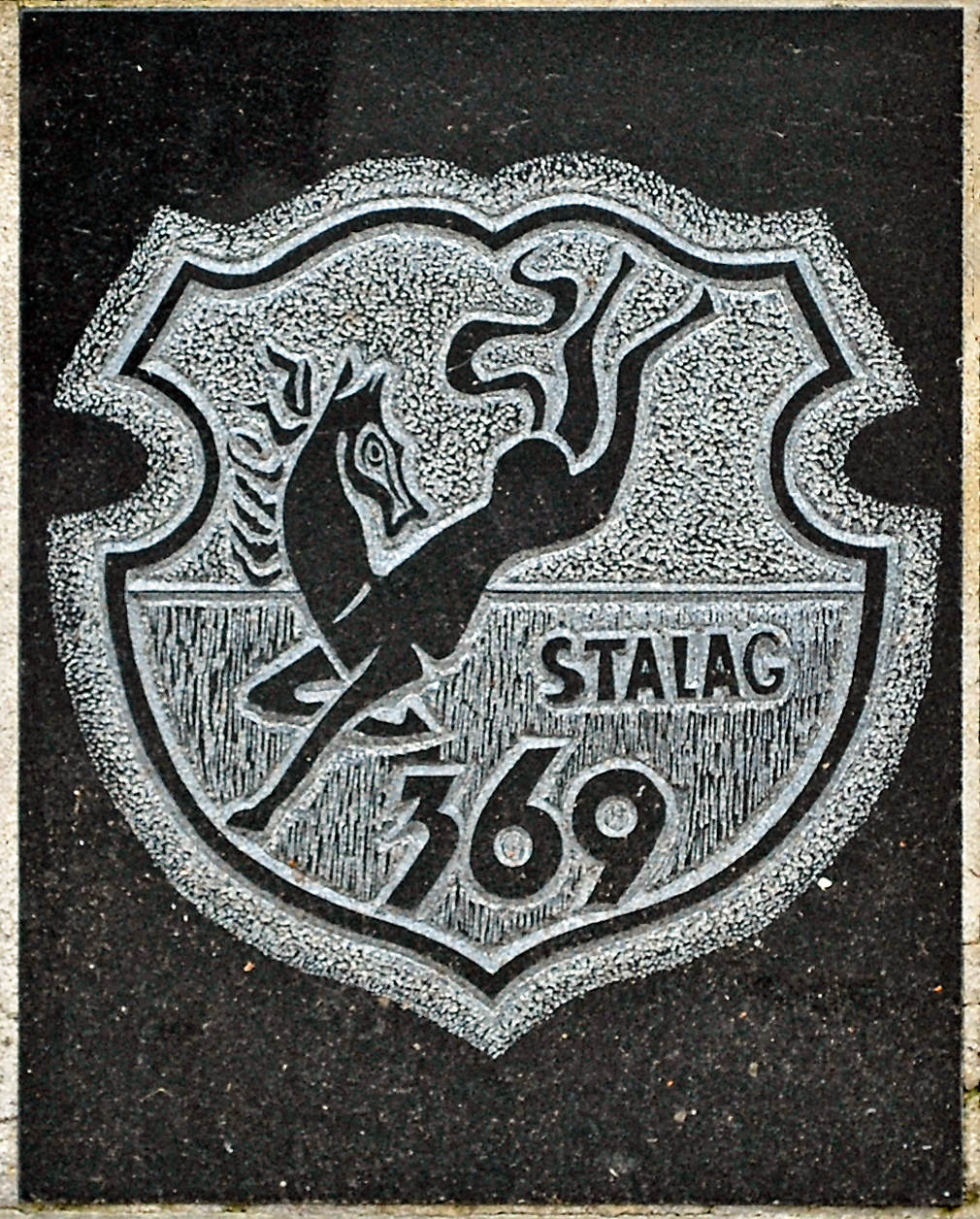 Stalag 369 Kobierzyn logo, Krakow, Poland